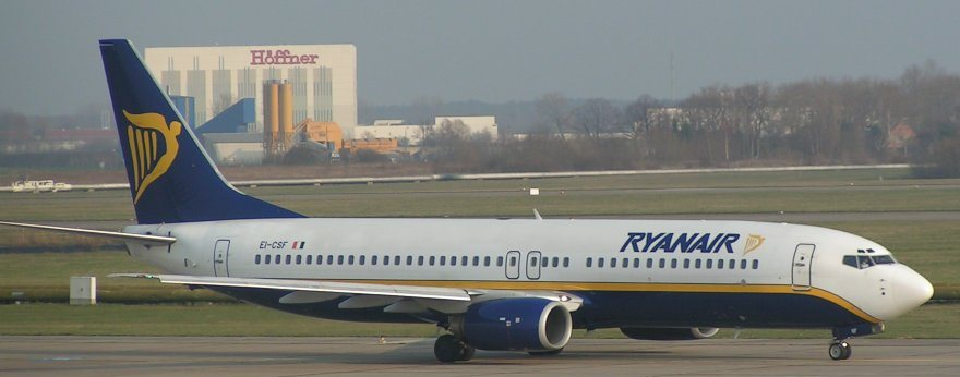 Ryanair Boeing 737-800 at Berlin-Schönefeld, taken at 2004, April 1st by David Herrmann